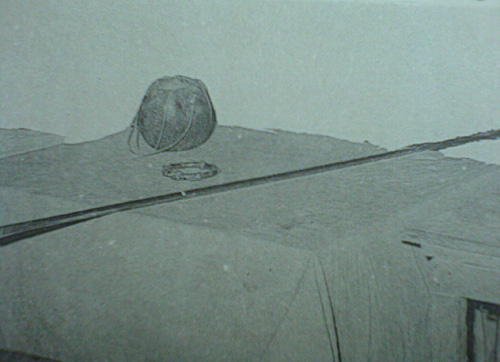 This is the things used by Ayya Vaikundar which are considered holy in Ayyavazhi.